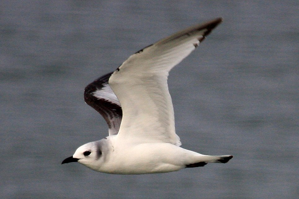 Black-legged Kittiwake (Rissa tridactyla)